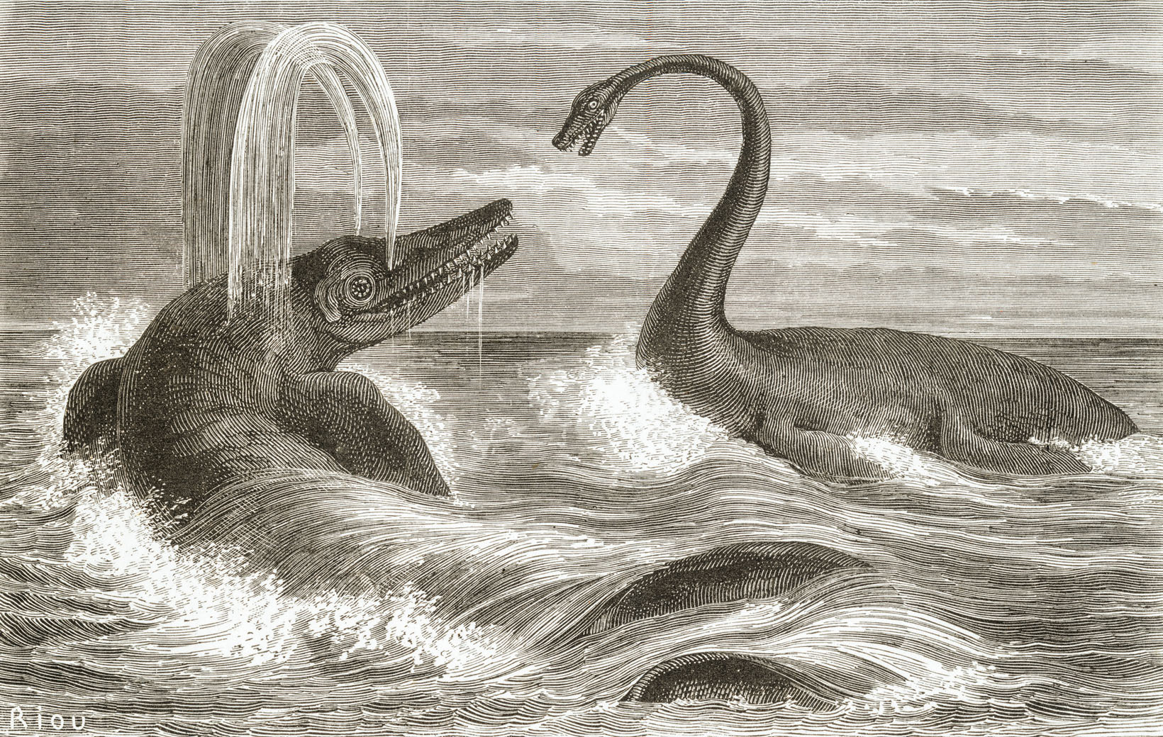 EDOUARD RIOU (ENGRAVED BY LAURENT HOTELIN AND ALEXANDRE HUREL), THE ICHTHYOSAUR AND THE PLESIOSAUR, 1863. COURTESY OF TASCHEN.